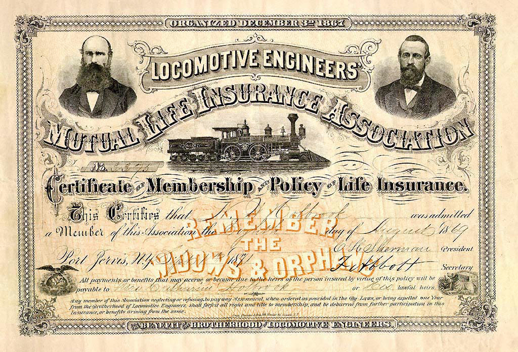 Locomotive Engineers Mutual Life Insurance Association Certificate of Membership and Policy of Life Insurance 1871